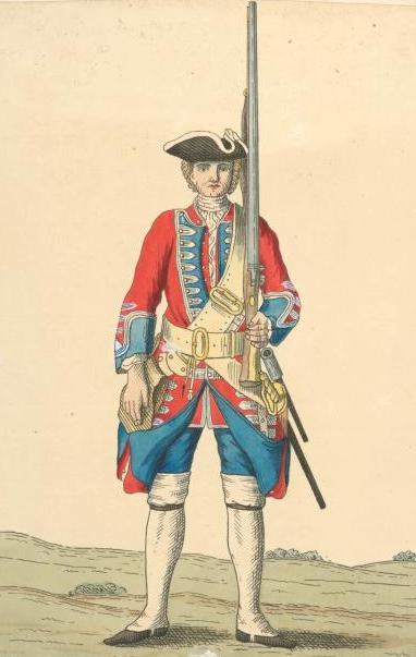 Soldier of the 9th regiment (1742)